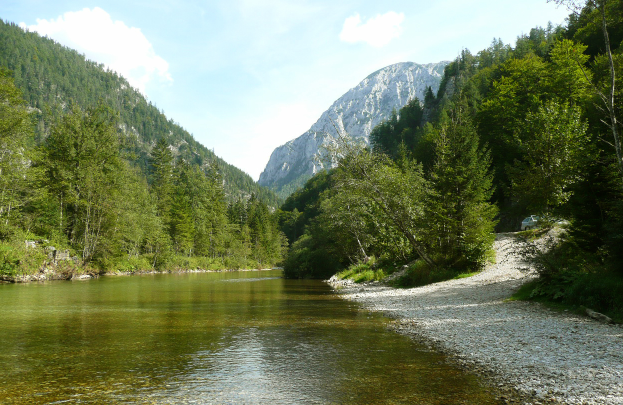 Salza river at Brunn